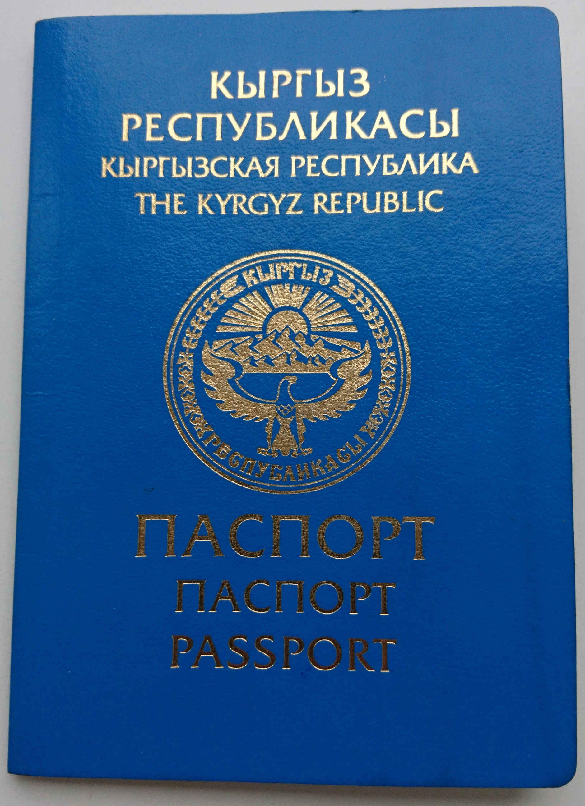 Front page of Passport from Kyrgyzstan